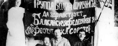 Revolutionary bolshevik group of Kavaevi family and others in Soviet Russia